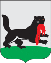 Irkutsk, coat of arms.